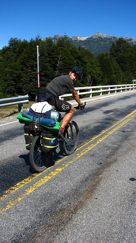 Vla-Puyehue - Patagonia